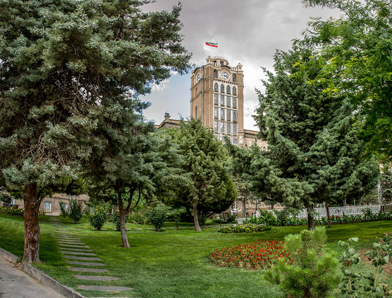 The Saat Tower, is used to be Tabriz Municipality, but due to its historical value, now is museum.